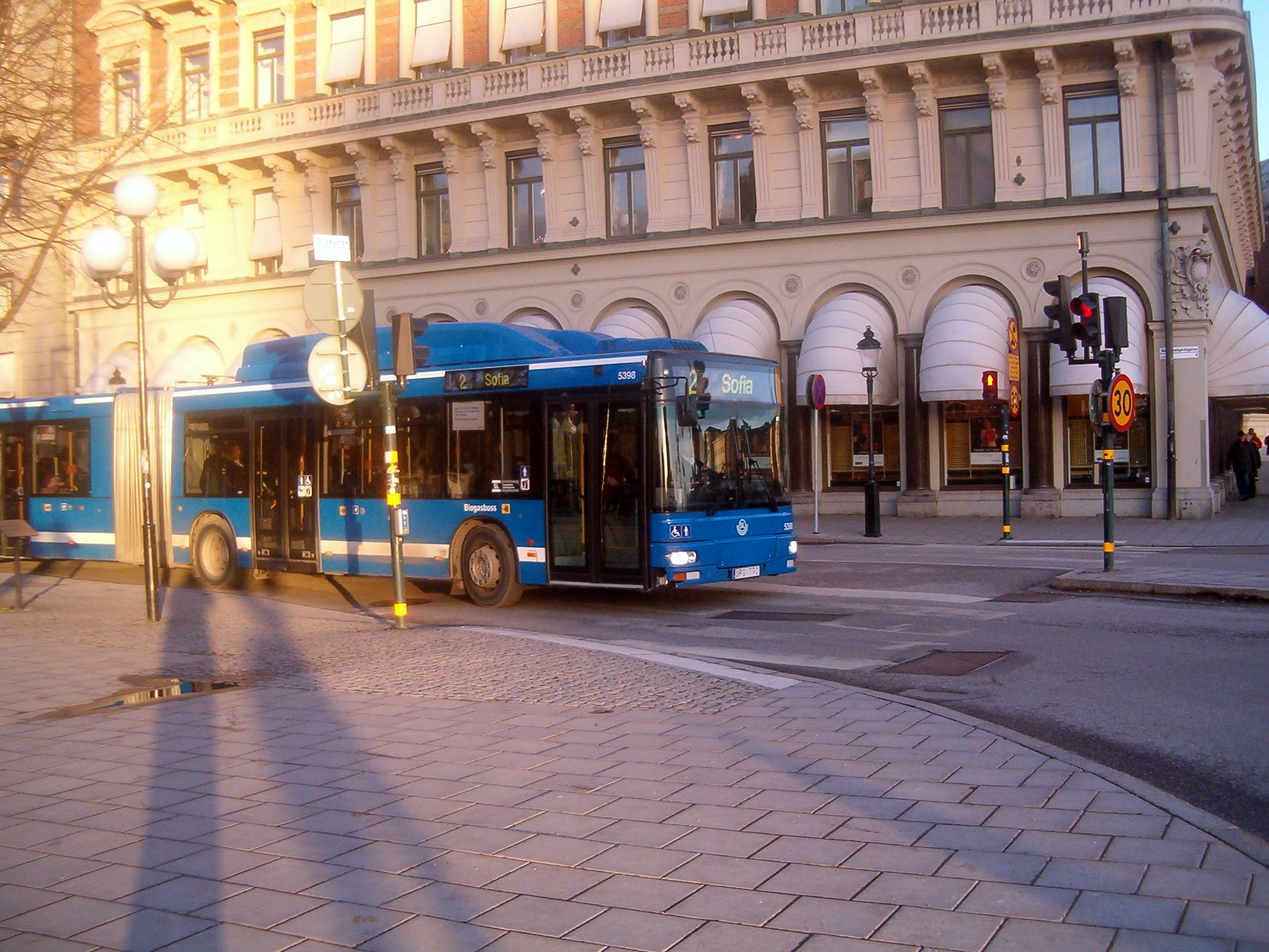 Blue MAN NG313 CNG (biogas) city buses (#5398) in Stockholm, Sweden. Built 2004?